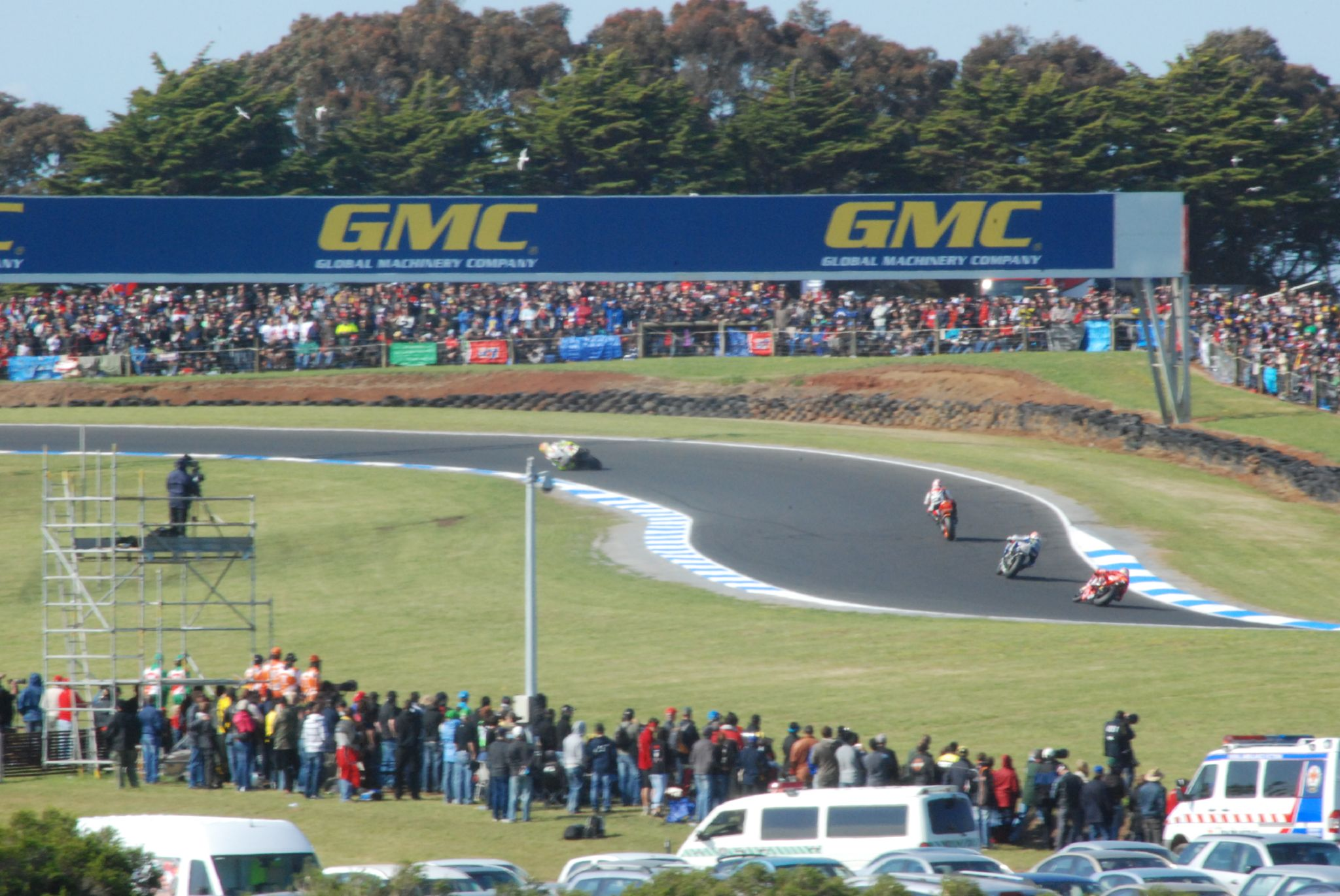 Race shots, MG corner, Phillip Island MotoGP.